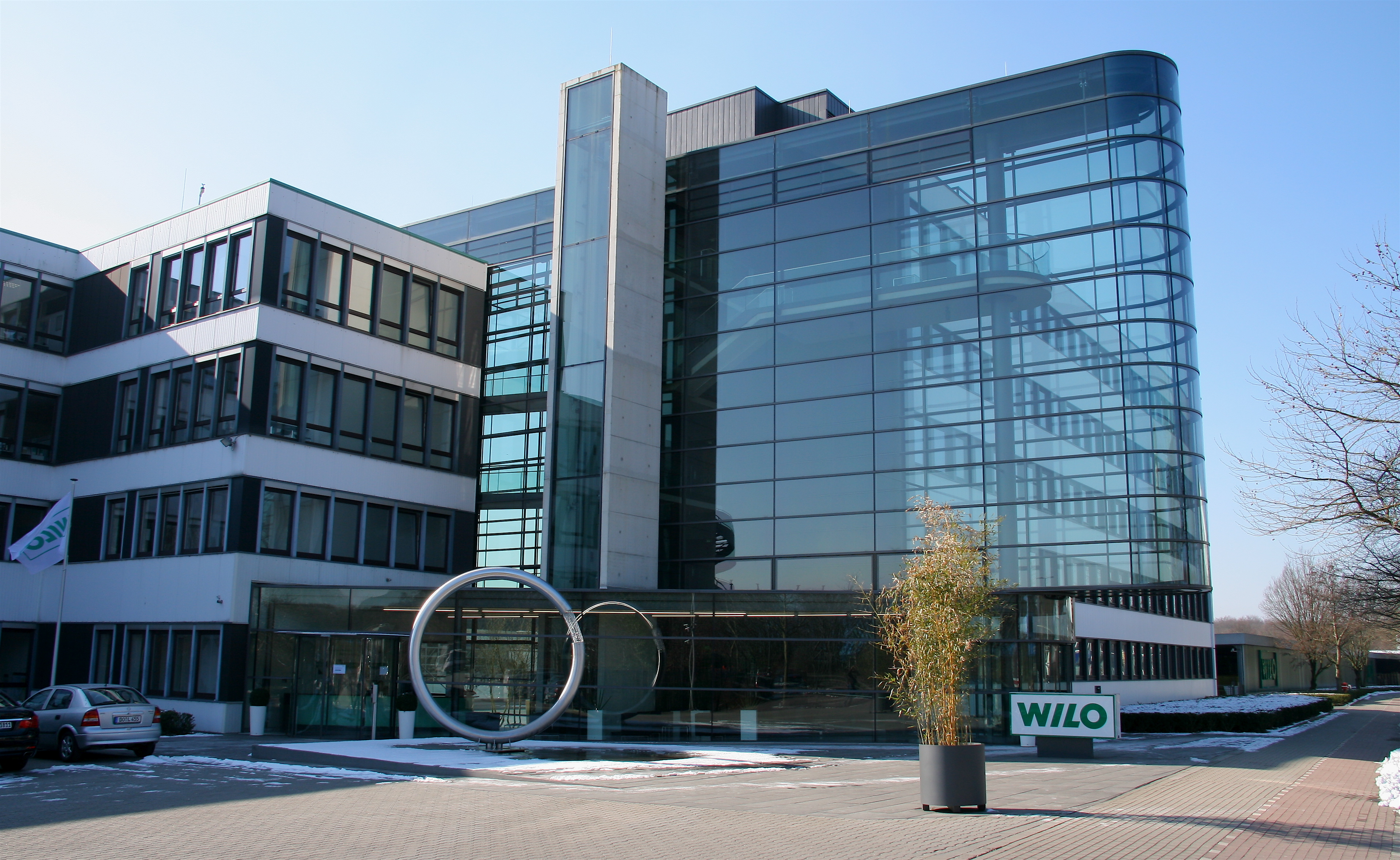 Headquarters of German company WILO in Dortmund.